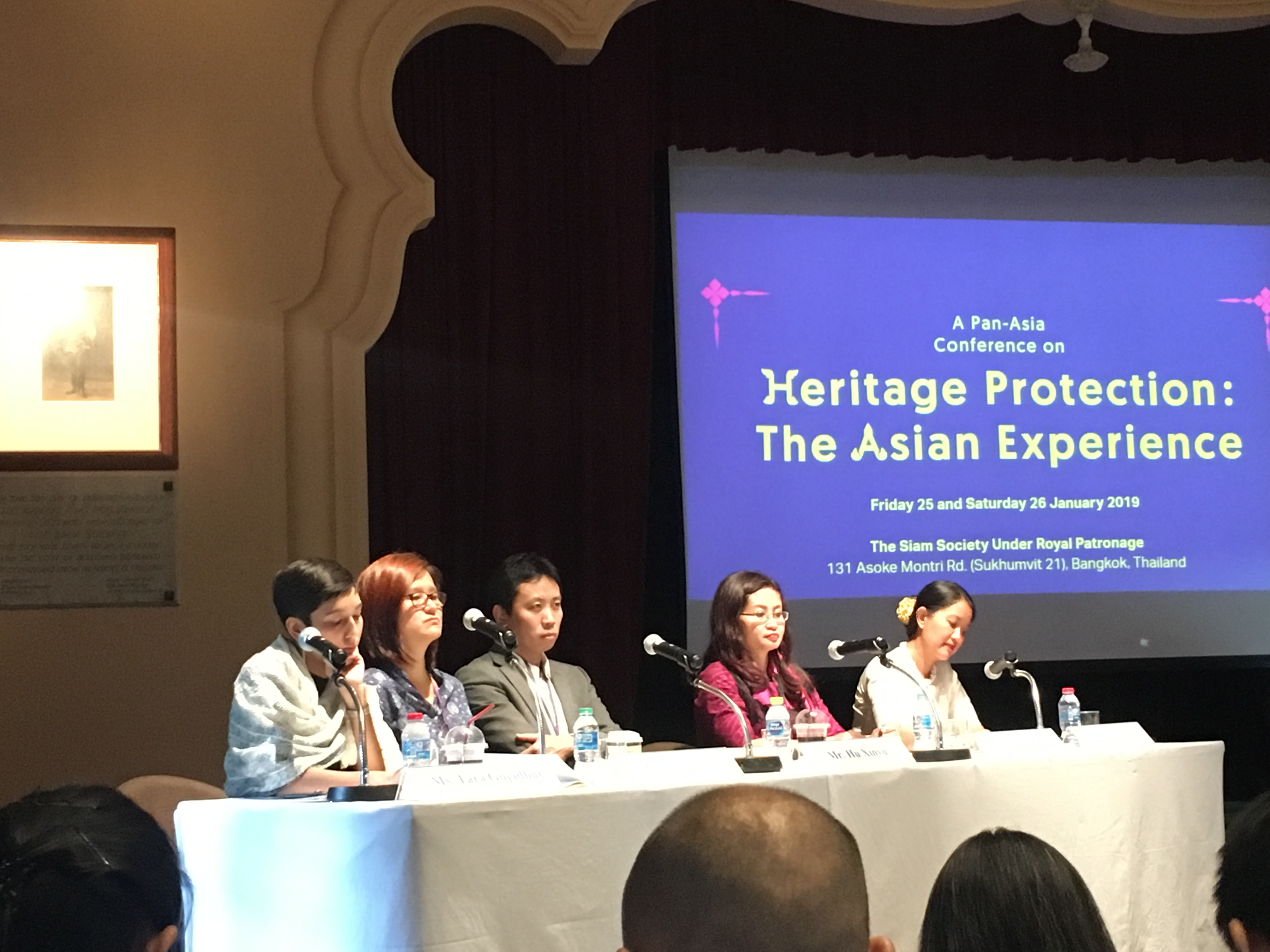 Panel at the Siam Society Conference on Heritage Protection: The Asian Experience, 25-26 January 2019